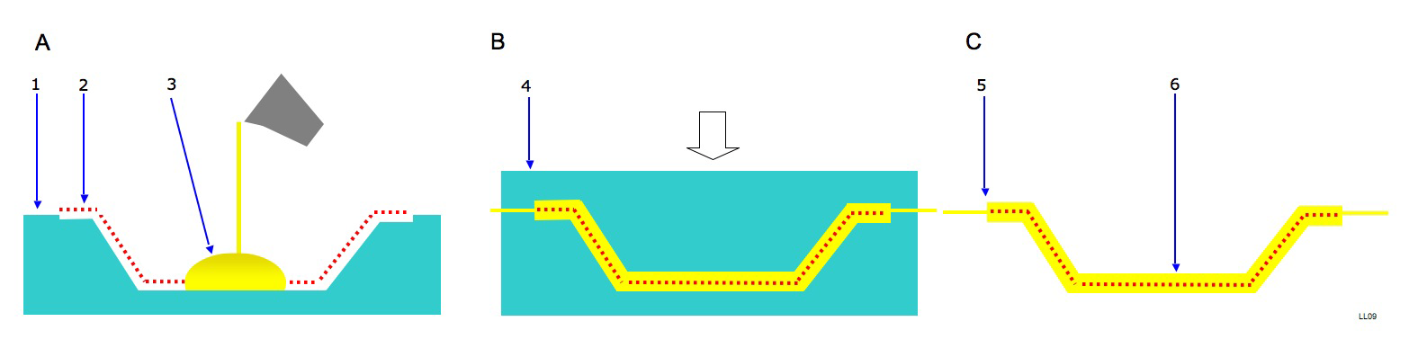 Wet compression molding. Cold press and hot press moulding. 1 Lower mould. 2 Inlay (fibers). 3 Resin. 4 Upper mould. 5 Trim final part. 6 Final part.